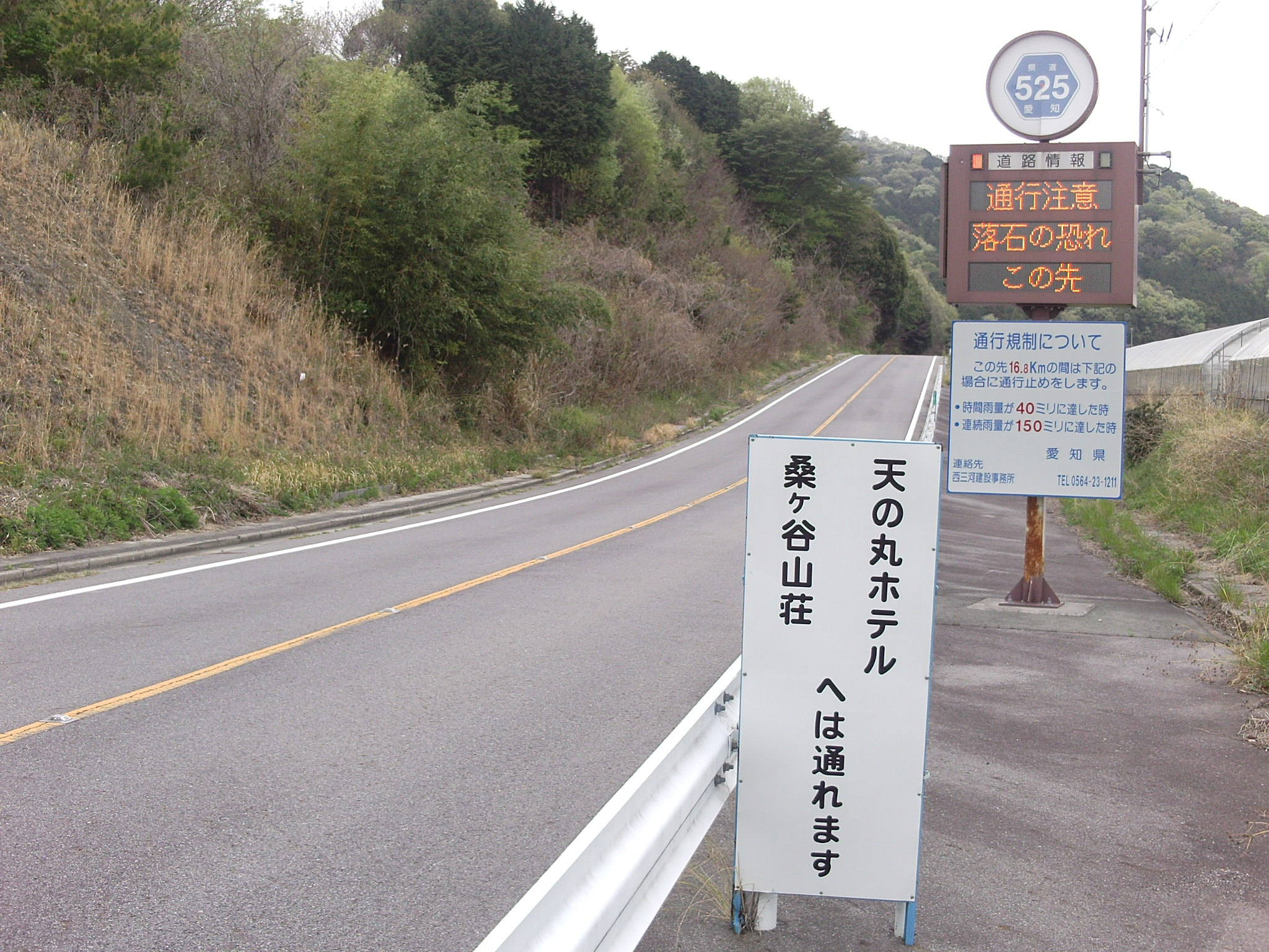 Aichi prefectural road No.525 in Fukozu, Kota-cho, Nikata-gun, Aichi.